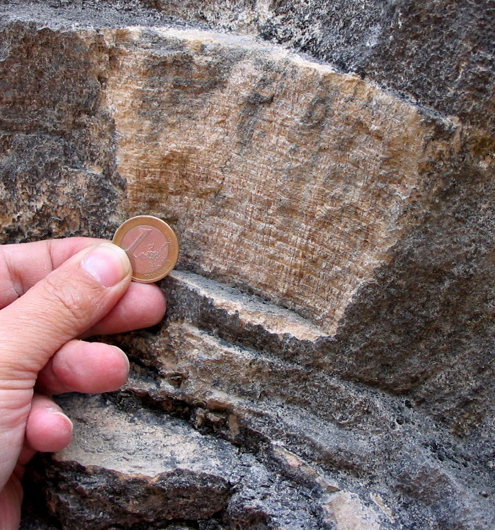 Laminated calcareous rock. Near Taravilla Lake, Alto Tajo (Guadalajara, Spain). (Scale coin: 1 EUR, Ø 23.25 mm)